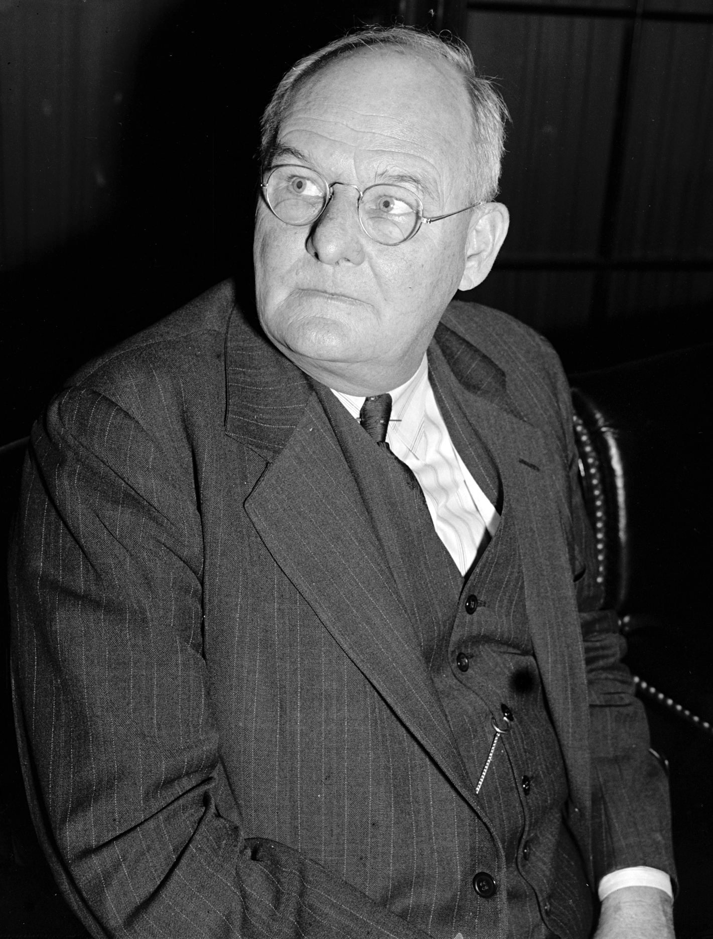 John K. Griffith, US Representative from Louisiana